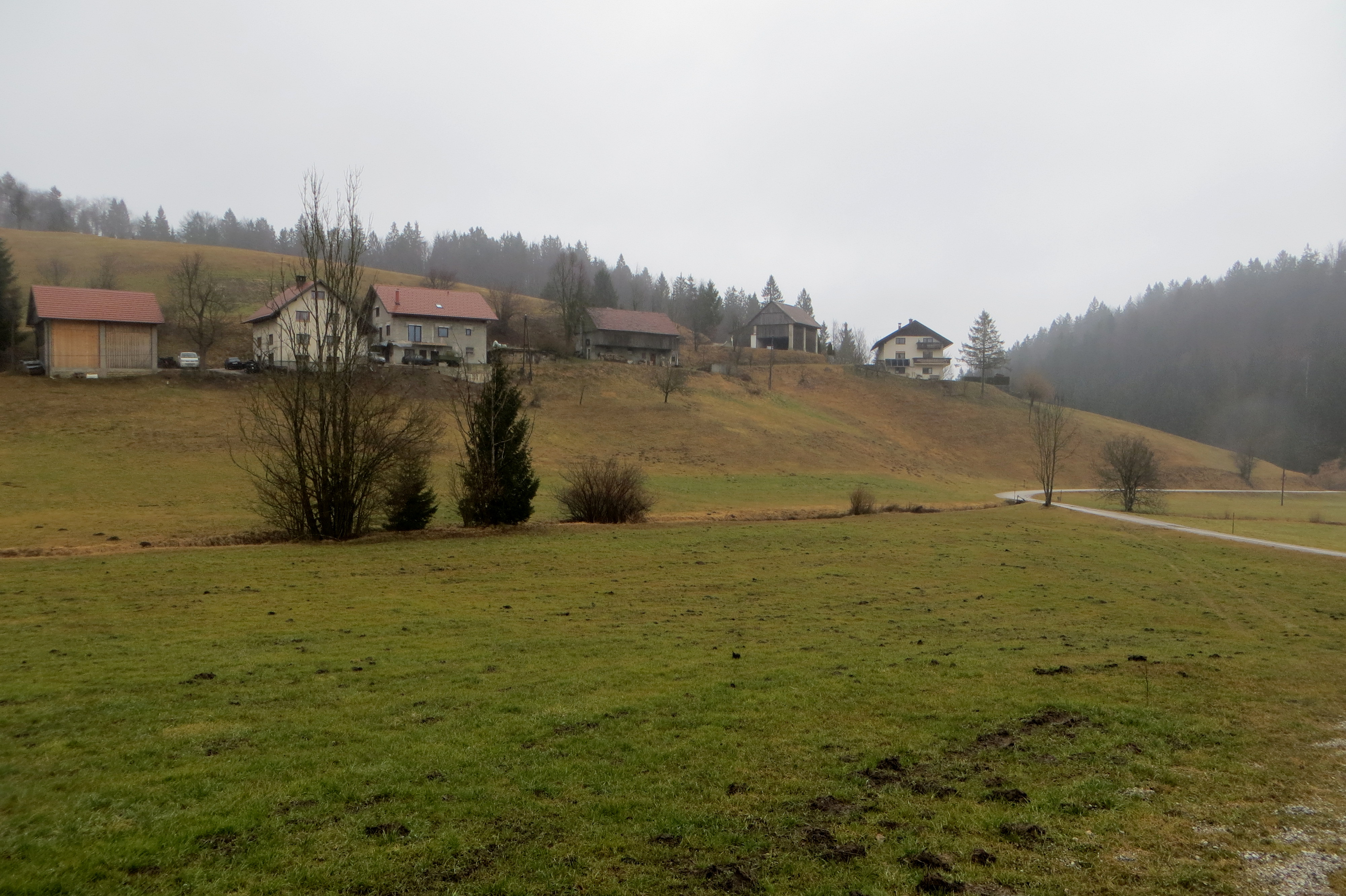 Potok, Municipality of Idrija, Slovenia